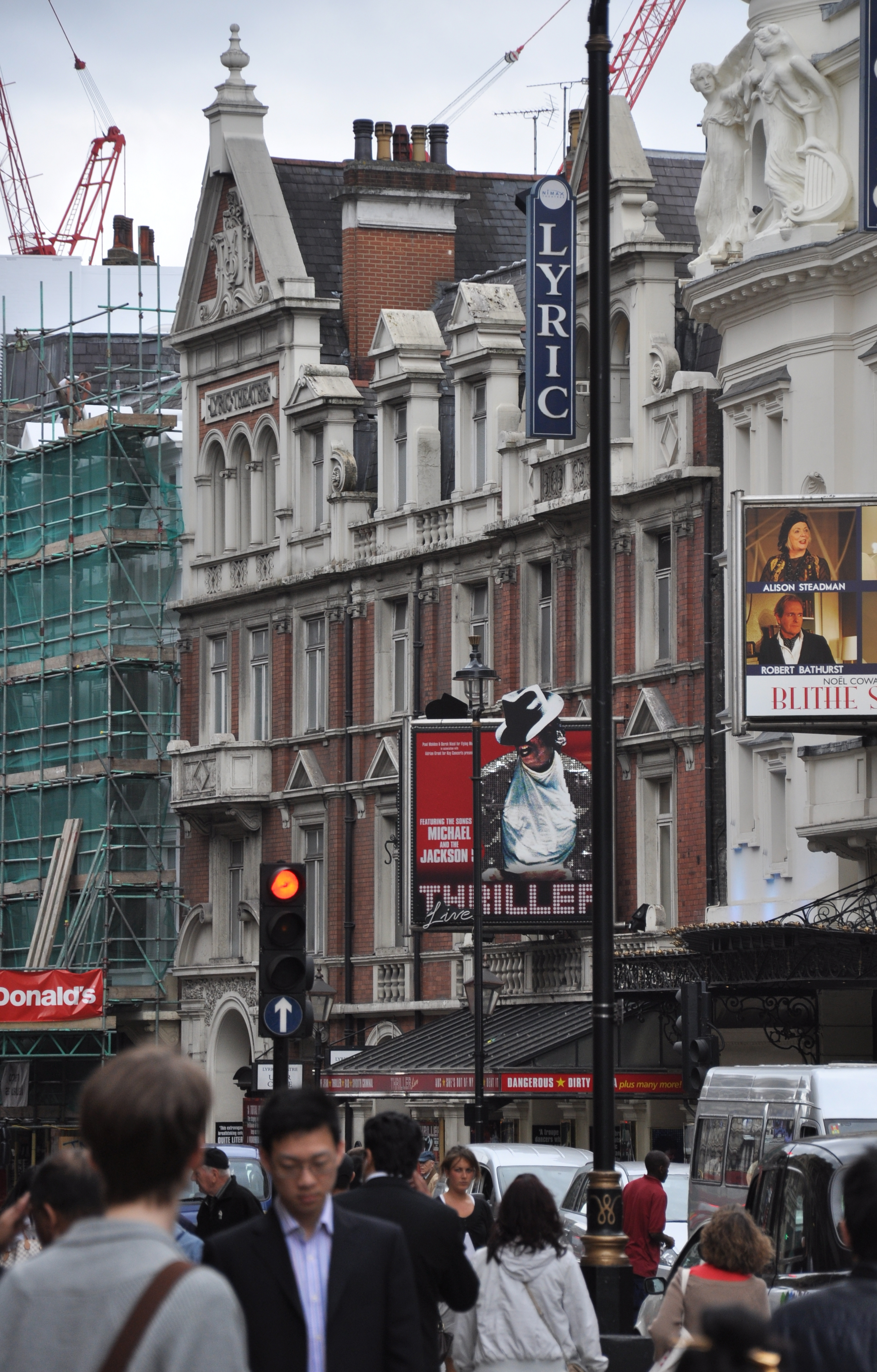 London, Lyric Theatre, showing "Thriller"